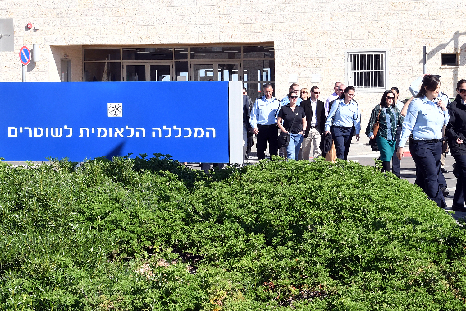 On March 8, U.S. Embassy Chargé d'affaires, Ms. Leslie Tsou, visited the Israel National Police Academy in Beit Shemesh. Ms. Tsou was welcomed by an honor guard and the Israeli and U.S. national anthems. During the visit, she was escorted by Chief Inspector Itay Meirovich and was briefed on the structure of the Israeli Police forces, as well as the role of the Academy. Among the training activities she observed were firing tactic simulation training, Krav Maga, and fitness classes. At the end of her visit, Chargé d’affaires Tsou said: “I would like to highlight the close cooperation that INP is giving to our security staff at the U.S. Embassy, in a wide range of activities. I was lucky and privileged to visit here today." Photos credit: Matty Stern/U.S. Embassy Tel Aviv